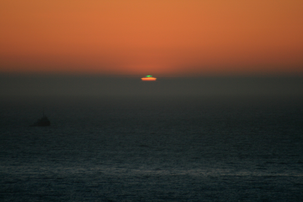 Green Flash in San Francisco.